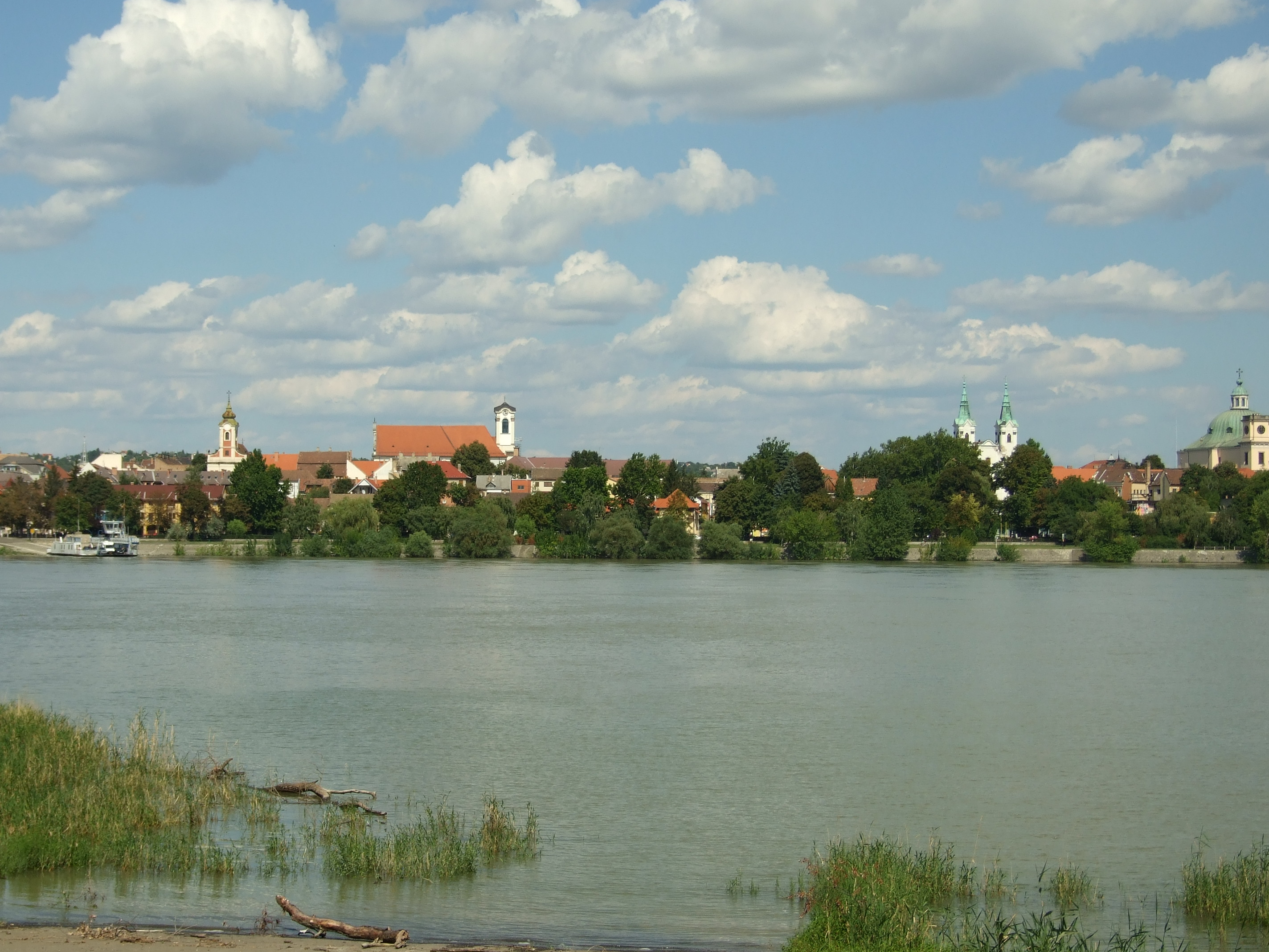 City of Vác, Pest comitat, Hungaryhelp